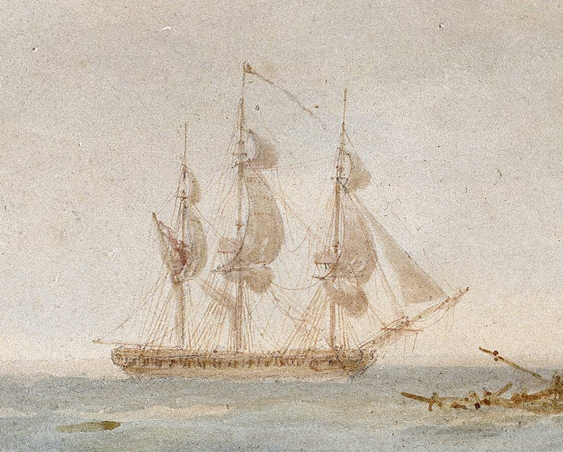 Detail taken from 'The capture of the 'Guillaume Tell', 31 March 1800 The second of a pair of drawings (PAF5878–PAF5879) of which the first (PAF5878) shows the start of this action. This drawing shows the end, with the completely dismasted and surrendered 'Guillaume Tell' in the centre, under the guns of Berry's 'Foudroyant' to the right, and the 'Lion' far right. The frigate 'Penelope' is in the distance on the left. The 'Guillaume Tell' was one of only two major French ships that escaped destruction or capture at the Battle of the Nile, taking eventual refuge in French-held Malta. She was captured when she attempted to escape eighteen months later. Pocock's preliminary pencil sketch for this drawing is PAD8765. Signed and dated by the artist in the lower right. Purchased from Mrs K. E. Maunsell, 1953, and formerly in the Berry Collection. Exh: NMM Pocock exhib. (1975) no. 27.